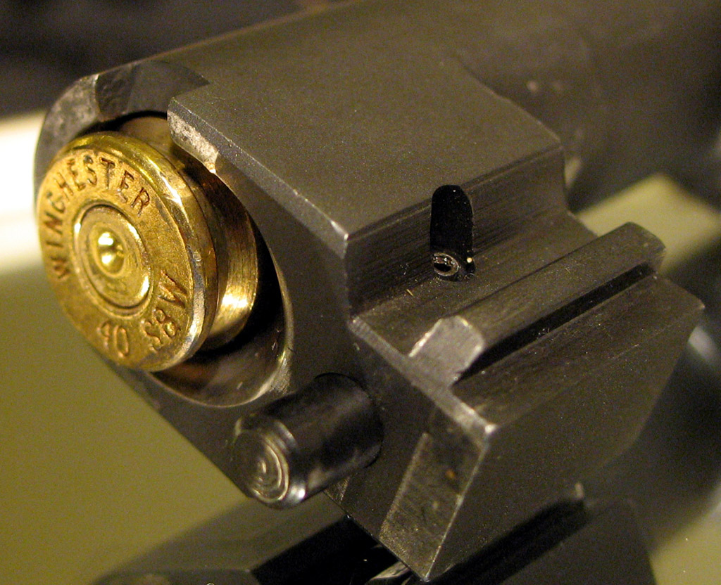 A .40 S&W Beretta 96 barrel breech photograph showing case support for the cartridge at the feed-ramp and extractor notch. The gun has about 4,000 rounds total through it and 150 Winchester Ranger 155gr JHPs since last cleaned. This case was taken from one of those fired rounds. As can be seen, there is full web support at the extractor notch, and a small 1/16th inch area unsupported at the feed ramp. I have never experienced a malfunction of any kind with this weapon.